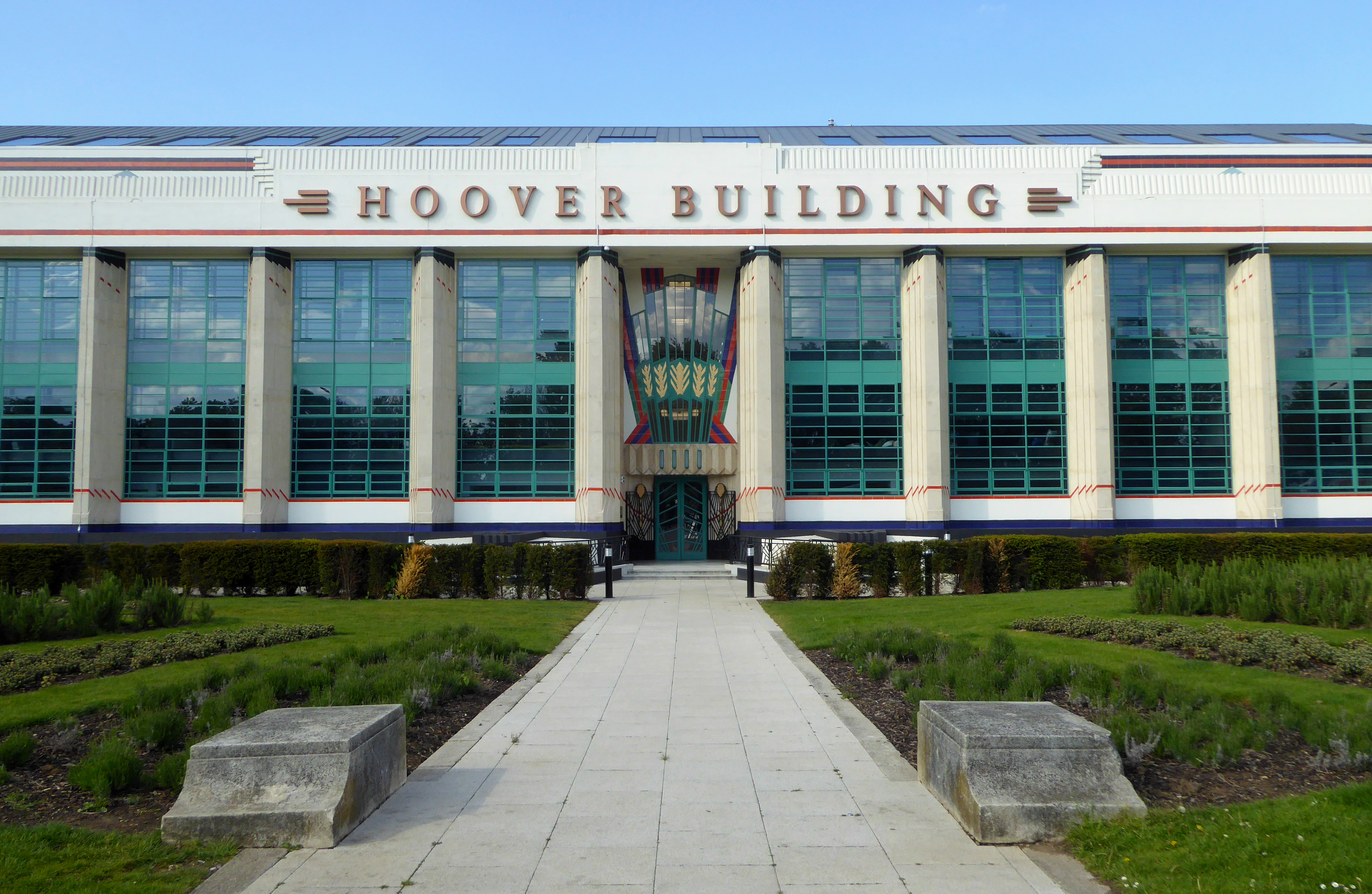 The front of the art-deco Hoover Building in Perivale, London Borough of Ealing.